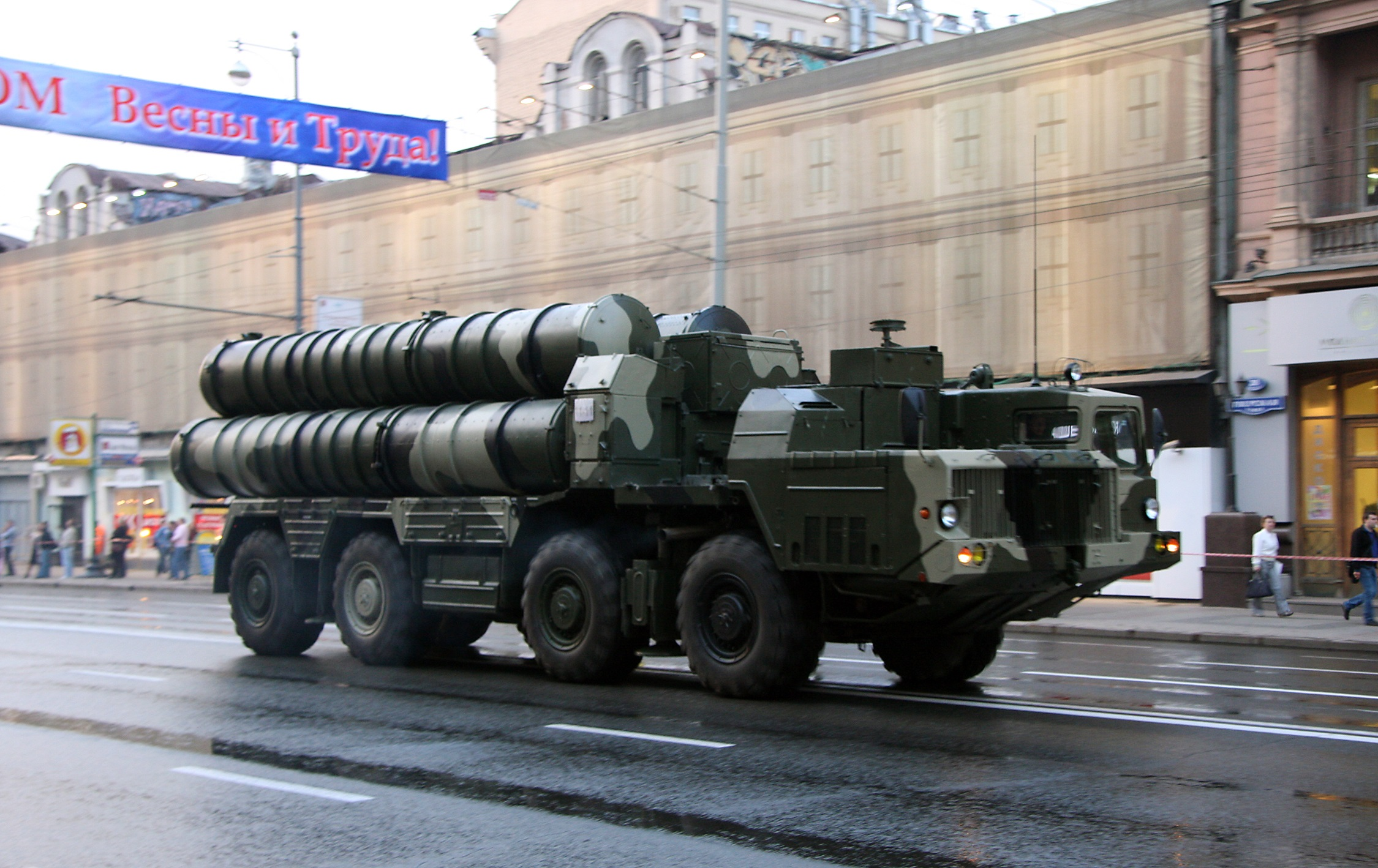 S-300 at 28-th and 30-th April rehearsals of Victory Day parade.